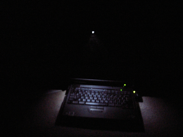 Author: Calcprogrammer1 Camera: Canon PowerShot A520 Description: ThinkLight on IBM Thinkpad A21p